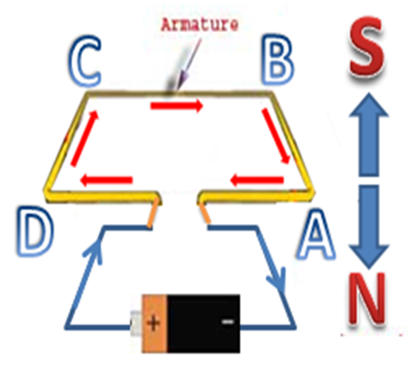 Basic principle of an Electric motor